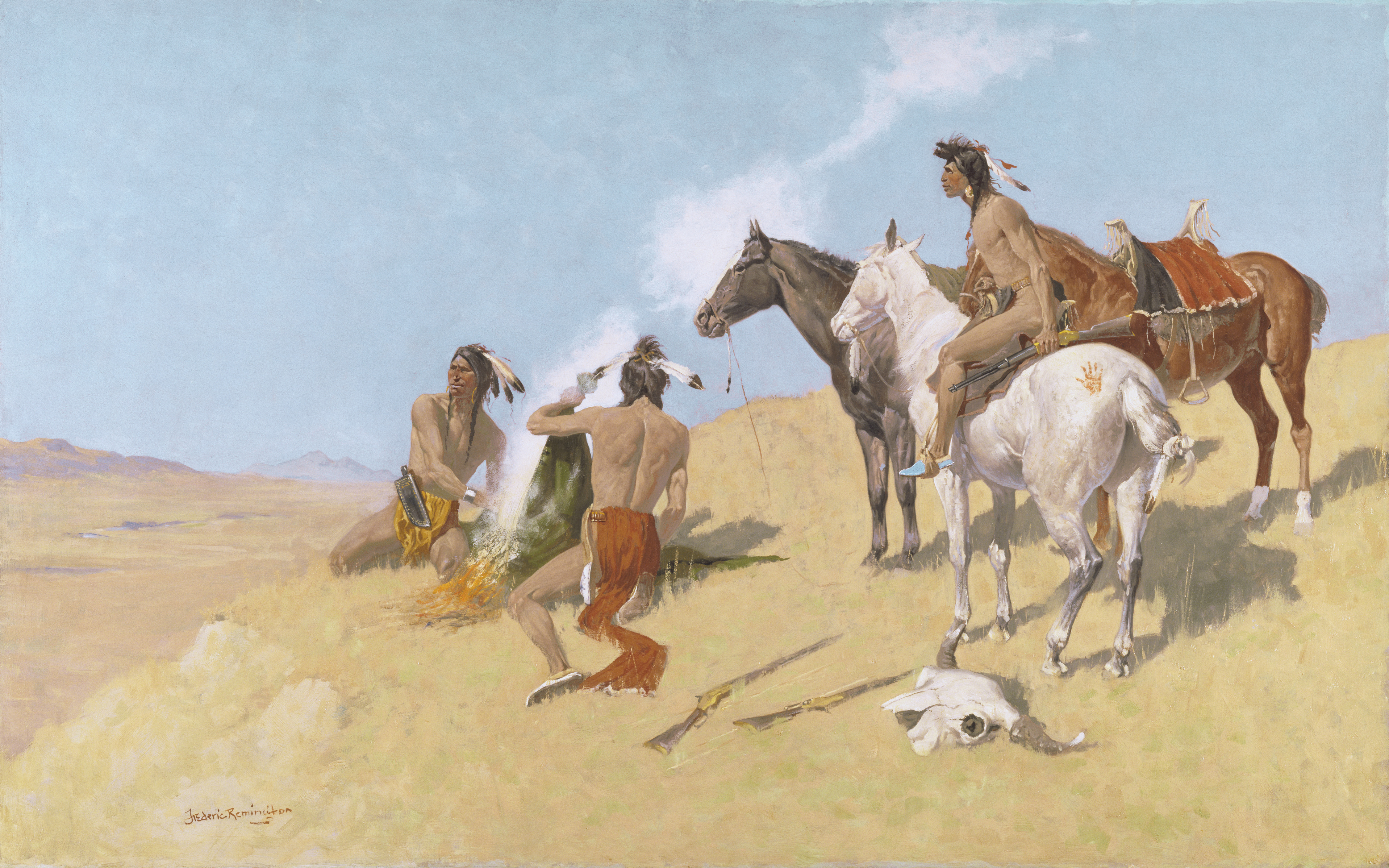 Frederic S. Remington (1861-1909); The Smoke Signal; 1905; Oil on canvas; Amon Carter Museum of American Art, Fort Worth, Texas, Amon G. Carter Collection; 1961.250